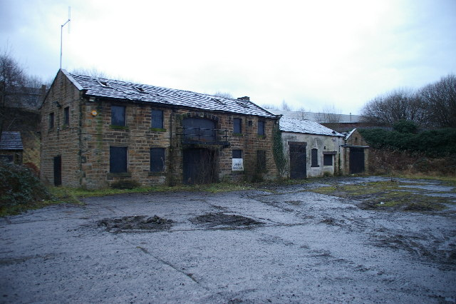 Old Boatyard, Finsley Gate, Burnley. This derelict boatyard on the Leeds & Liverpool Canal is crying out for the odd million or two to be spent on it.